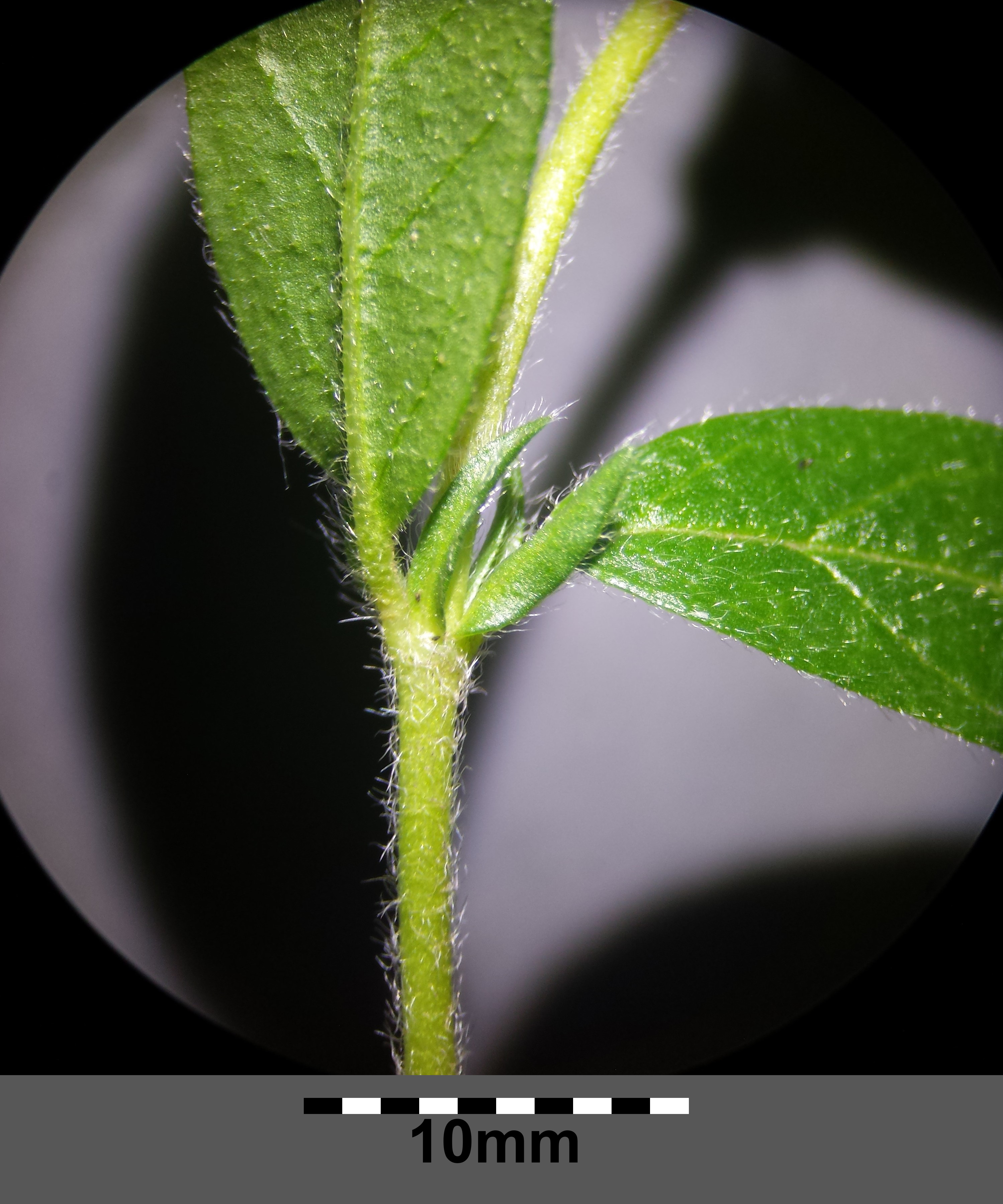 Stipe with leaves and stipules Taxonym: Helianthemum nummularium subsp. obscurum ss Fischer et al. EfÖLS 2008 ISBN 978-3-85474-187-9 Location: between Michelberg and Steinberg near Niederhollabrunn, district Korneuburg, Lower Austria - ca. 300 m a.s.l. Habitat: wayside/slope